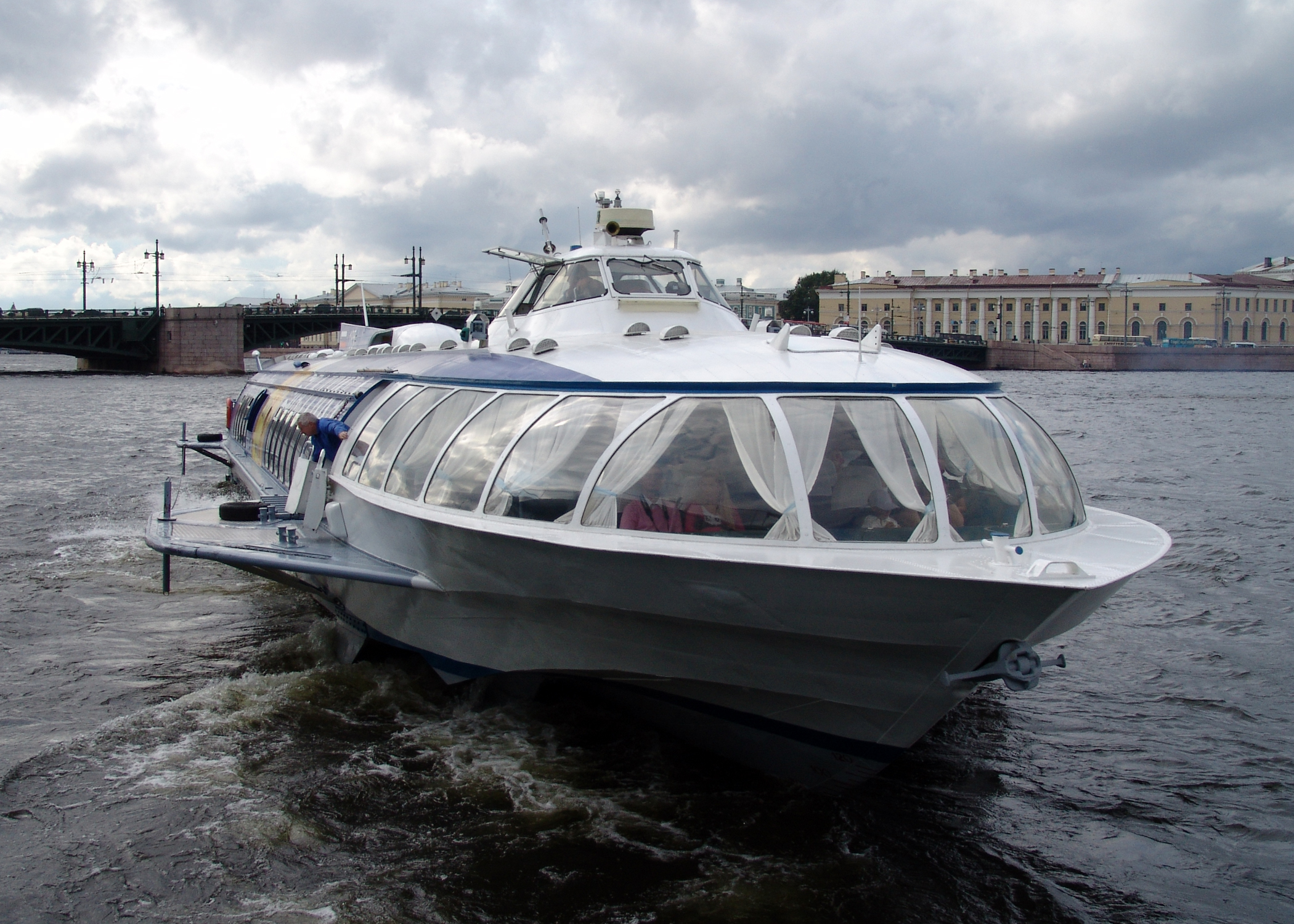 Hydrofoil high-speed boat docking in St. Petersburg, Russia from a run to Peterhof Palace.